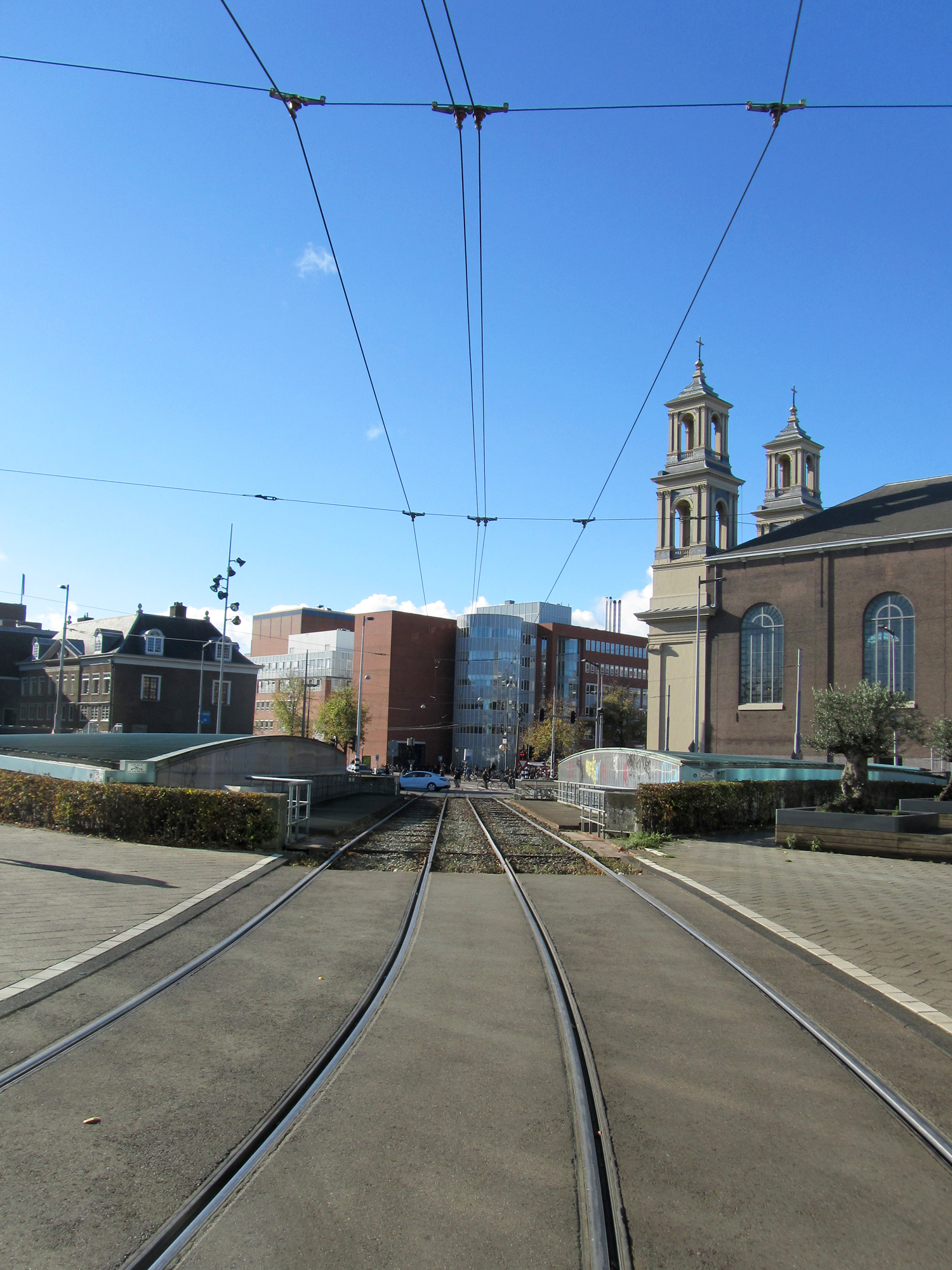 Tram rails running through Mr. Visserplein square in Amsterdam, looking towards Waterlooplein square with the Stopera (middle) and Mozes en Aäronkerk (right).